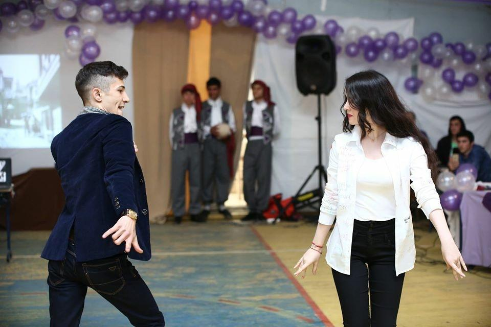 a beautiful moment from Caucasian dance